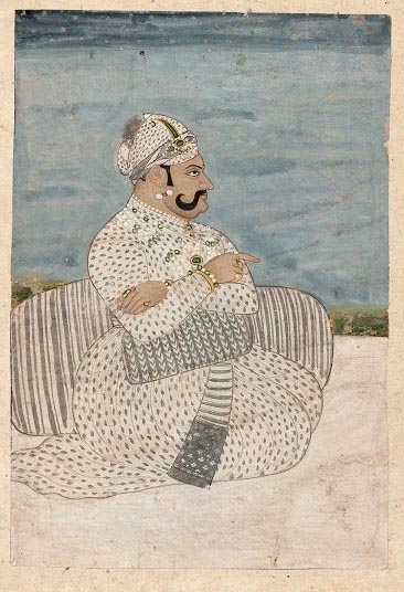 Madho_Singh of Jaipur